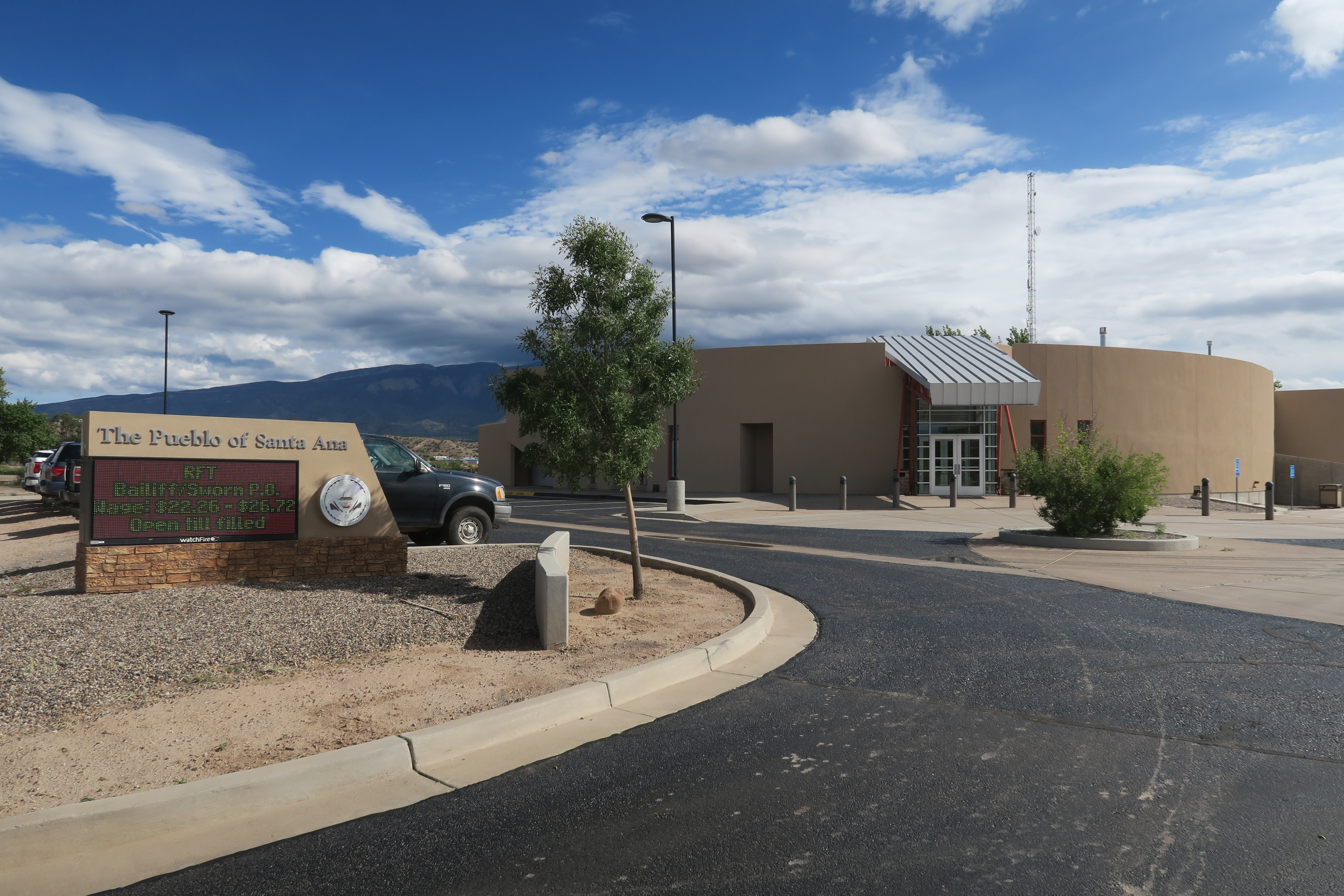 Admin Building, Pueblo of Santa Ana, Santa Ana Pueblo New Mexico